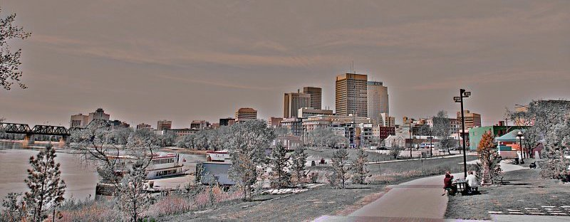 taken on may 8 2007 by 1ajs on waterfront drive Winnipeg, Manitoba, Canada